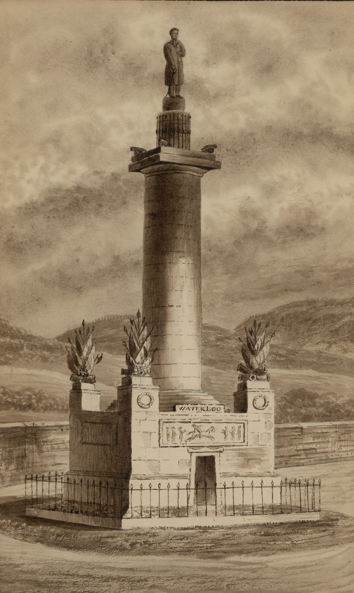 Numerous drawings and landscapes of villages, towns and landmarks in Wales and Ireland. By French artist Alphonse Dousseau.